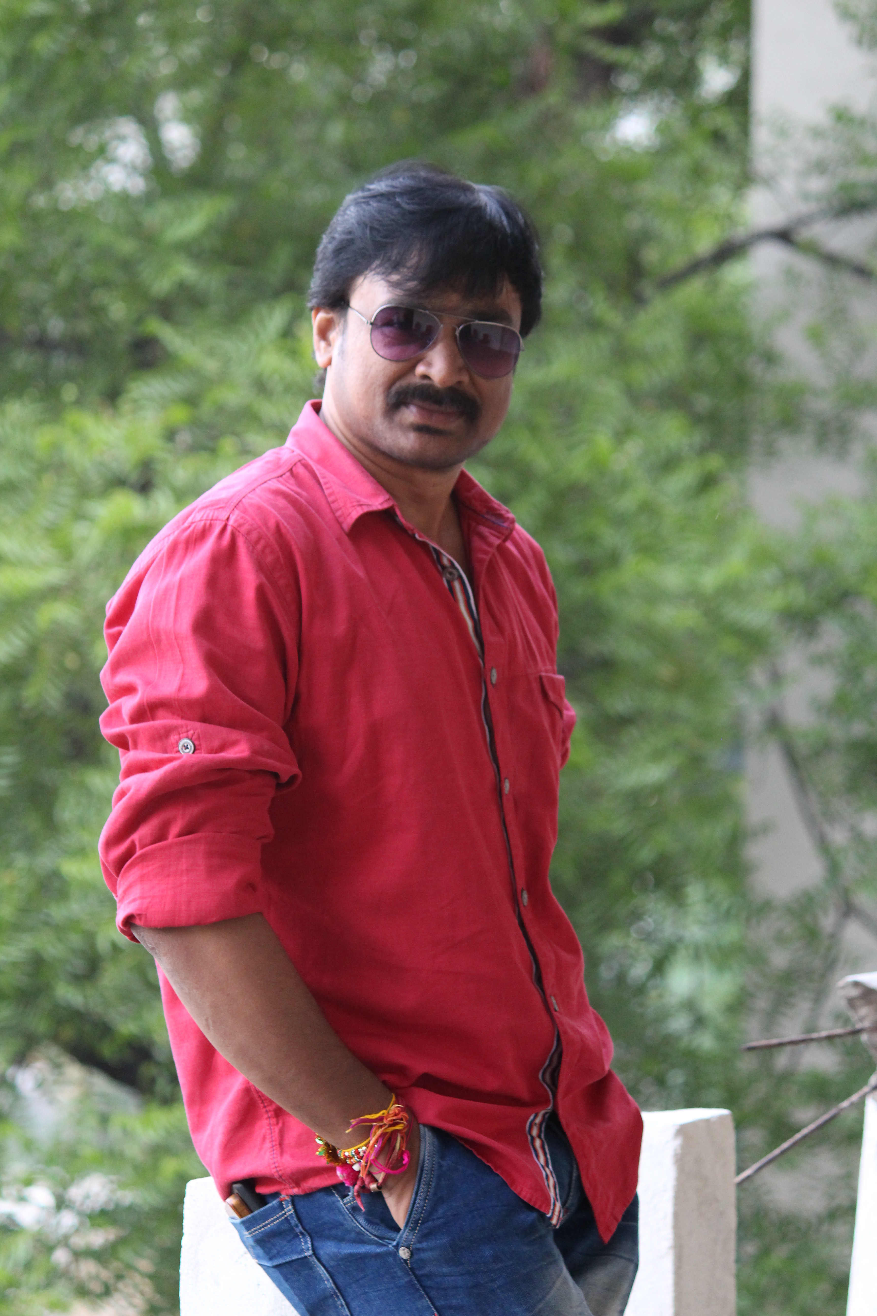 Telugu Film Actor